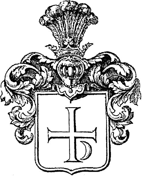 Coat of arms Tarnawa from Herbarz polski by Kacper Niesiecki - edition Bobrowicz, Lipsk 1842